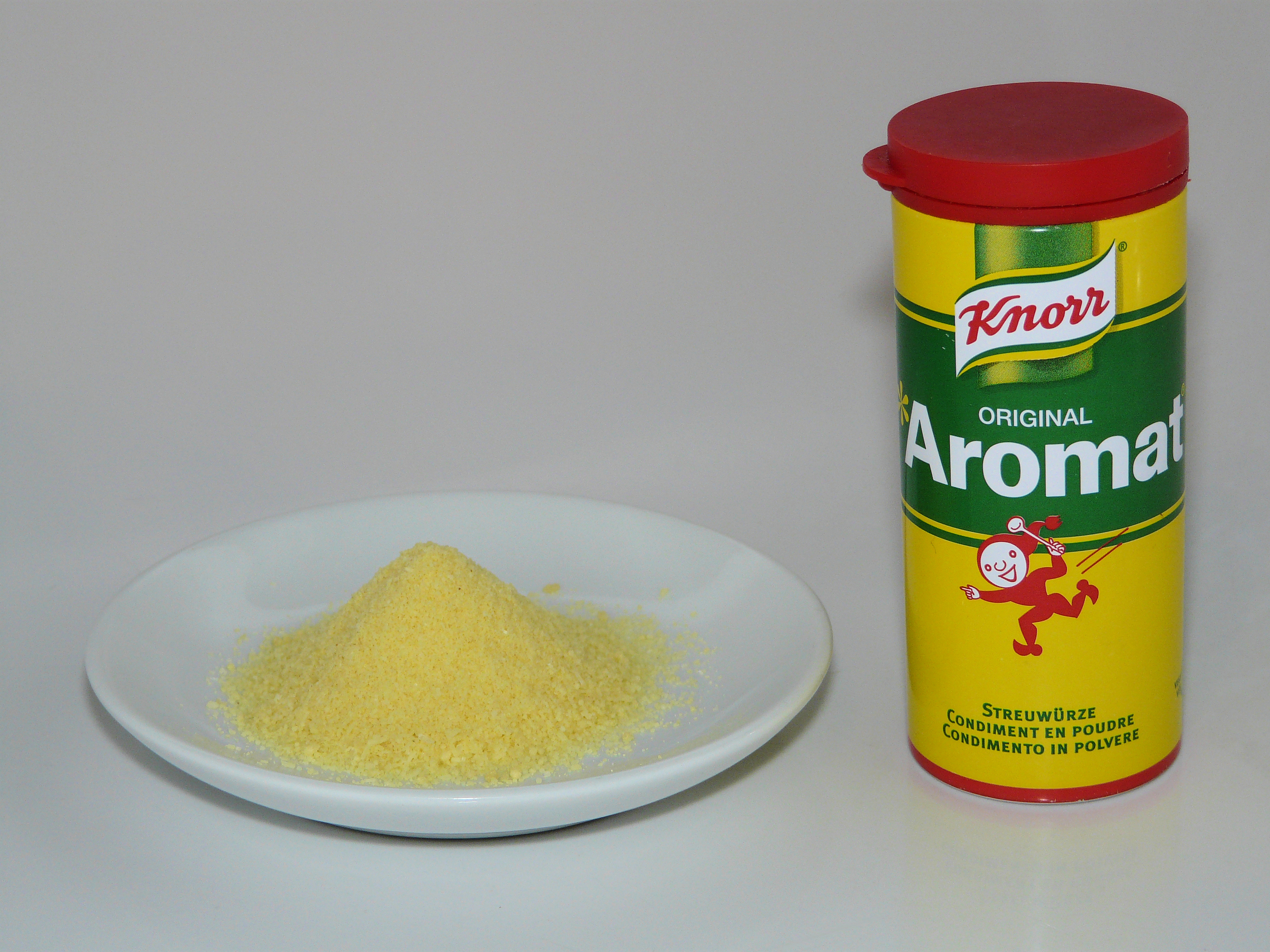 Aromat seasoning with its can.